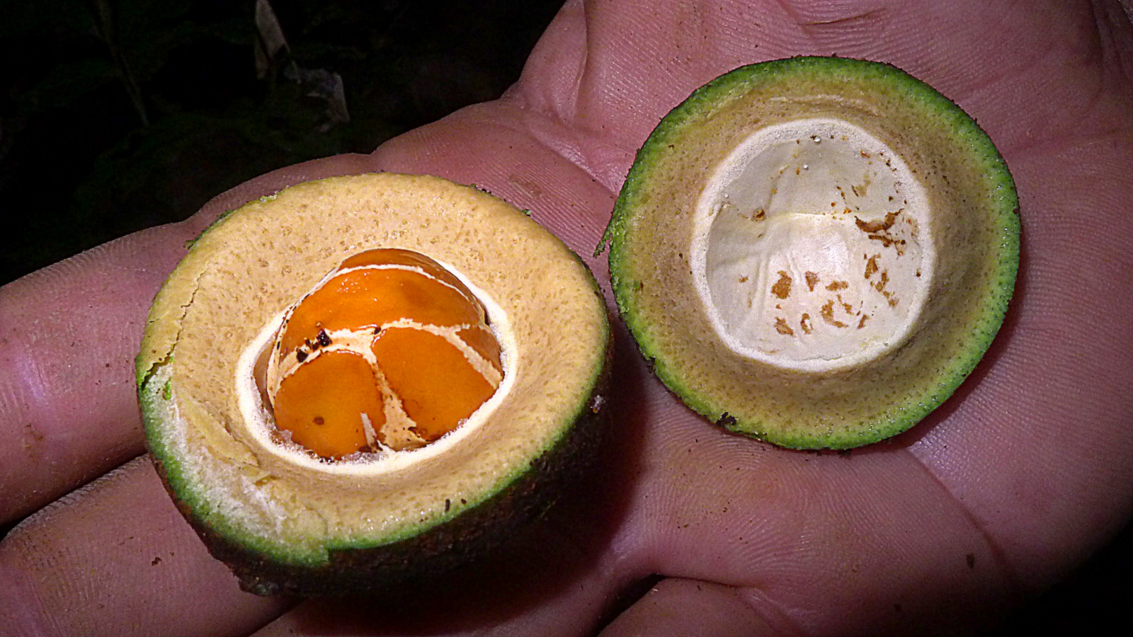 Eschweilera sp., Lecythidaceae, Atlantic forest, northern littoral of Bahia, Brazil